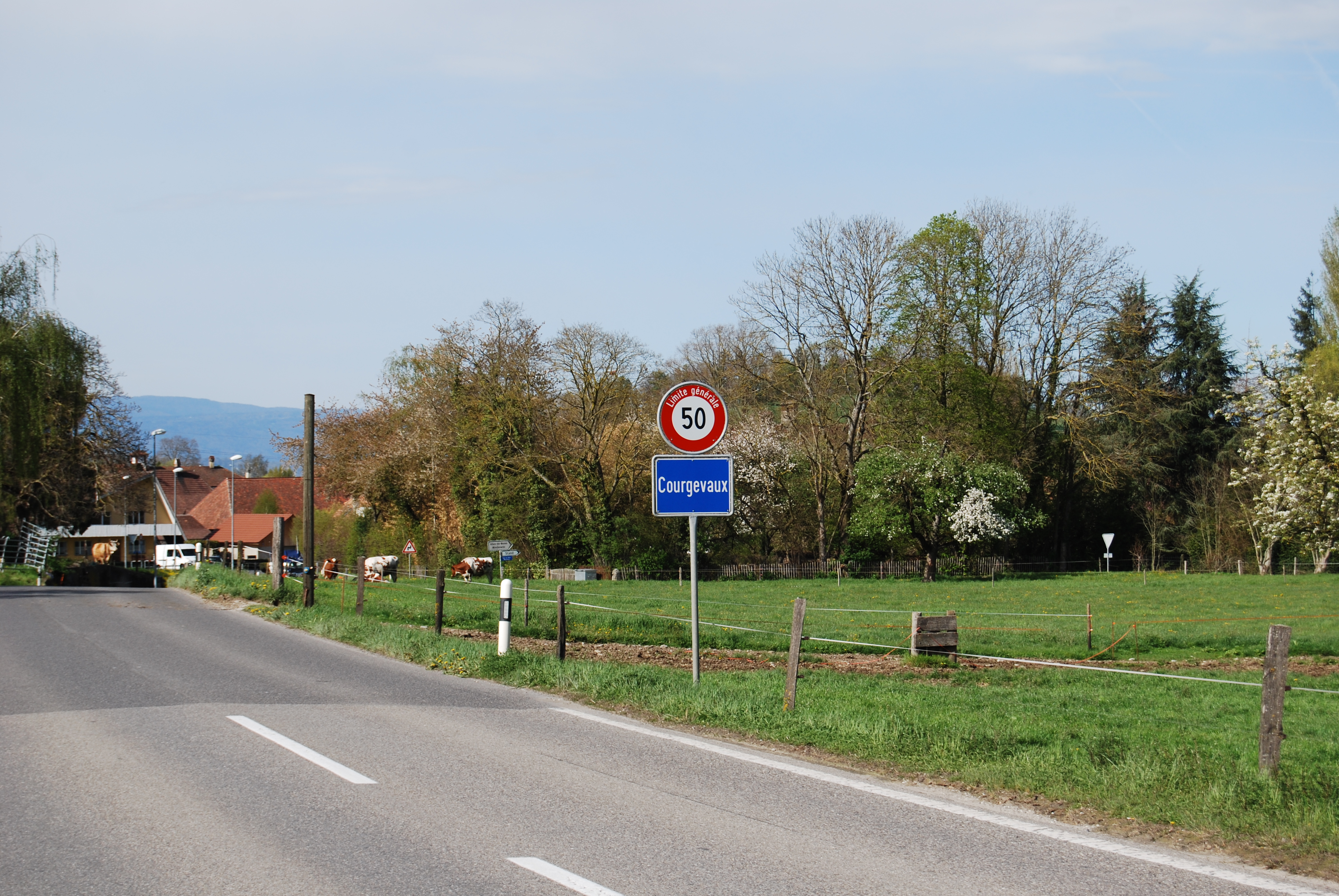 Courgevaux, canton of Fribourg, SwitzerlandEsperanto: Courgevaux, Kantono Friburgo, Svislando